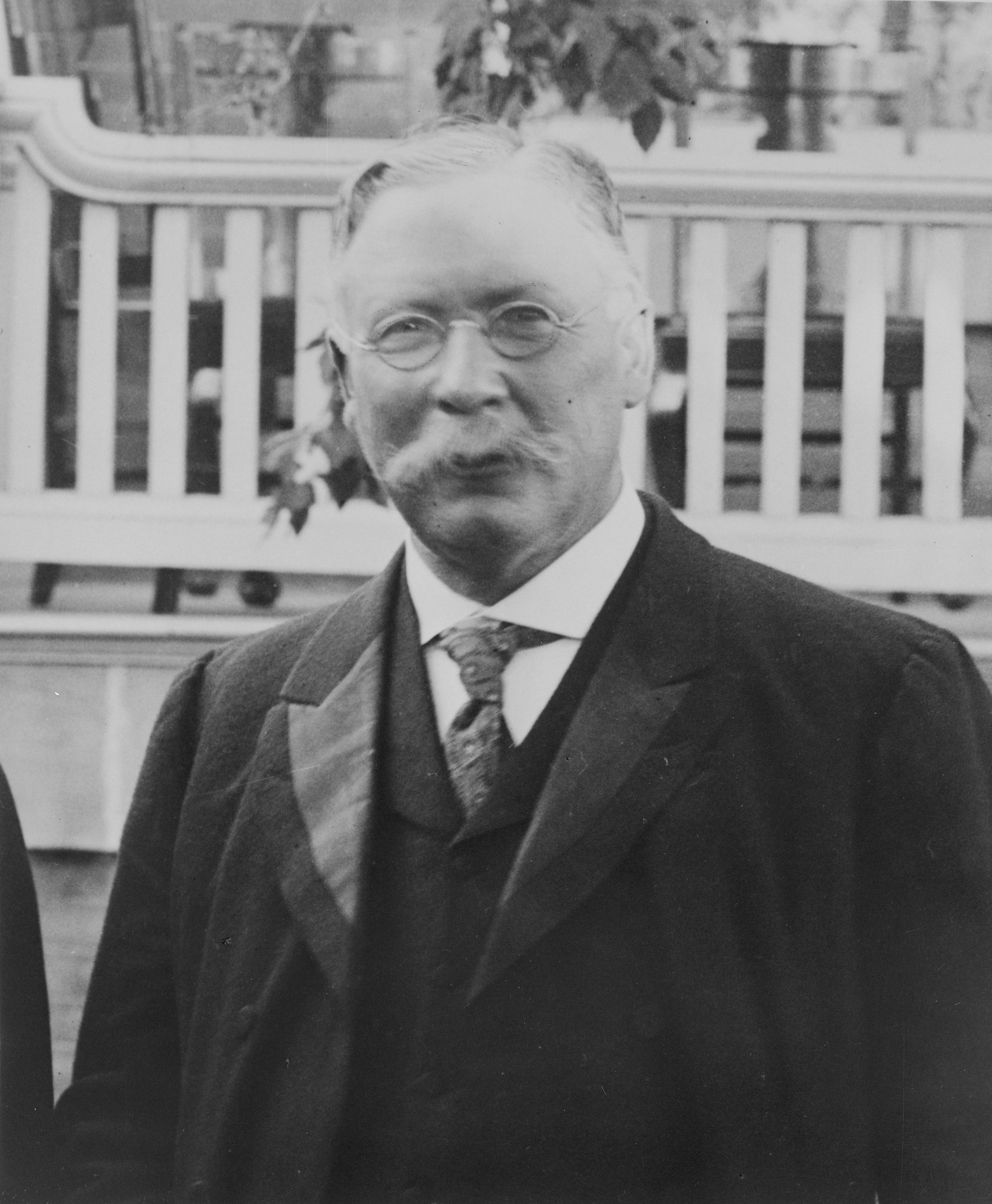 Depicted person: Alexander Cameron Rutherford – Canadian lawyer and politician; first premier of Alberta